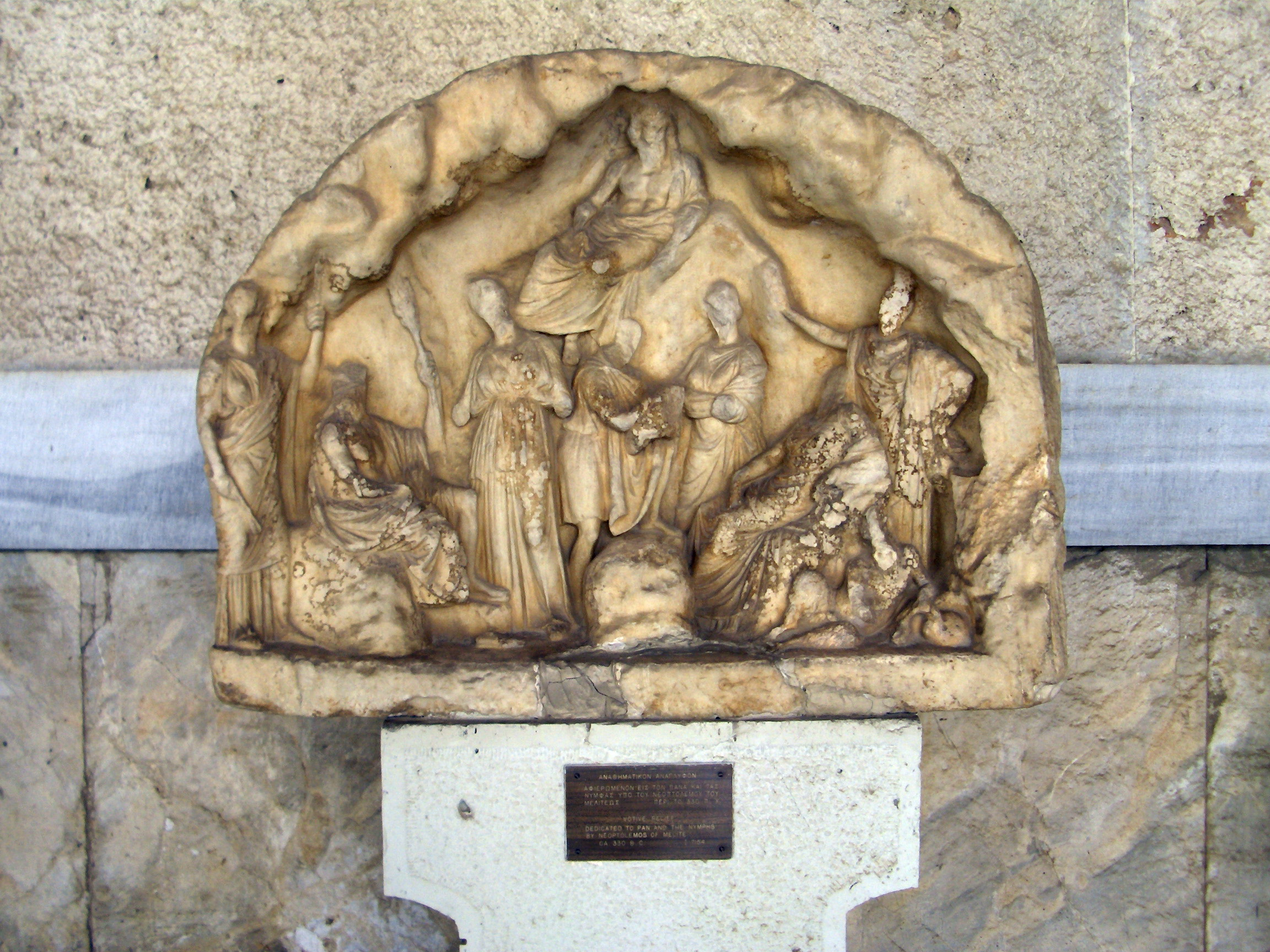 Sculpture of Pan and Nymphs. Votive relief dedicated by Neoptolemos of Melite, ca. 330 BC. Exhibited along the portico of the Stoa of Attalus, which houses the Ancient Agora Museum in Athens.